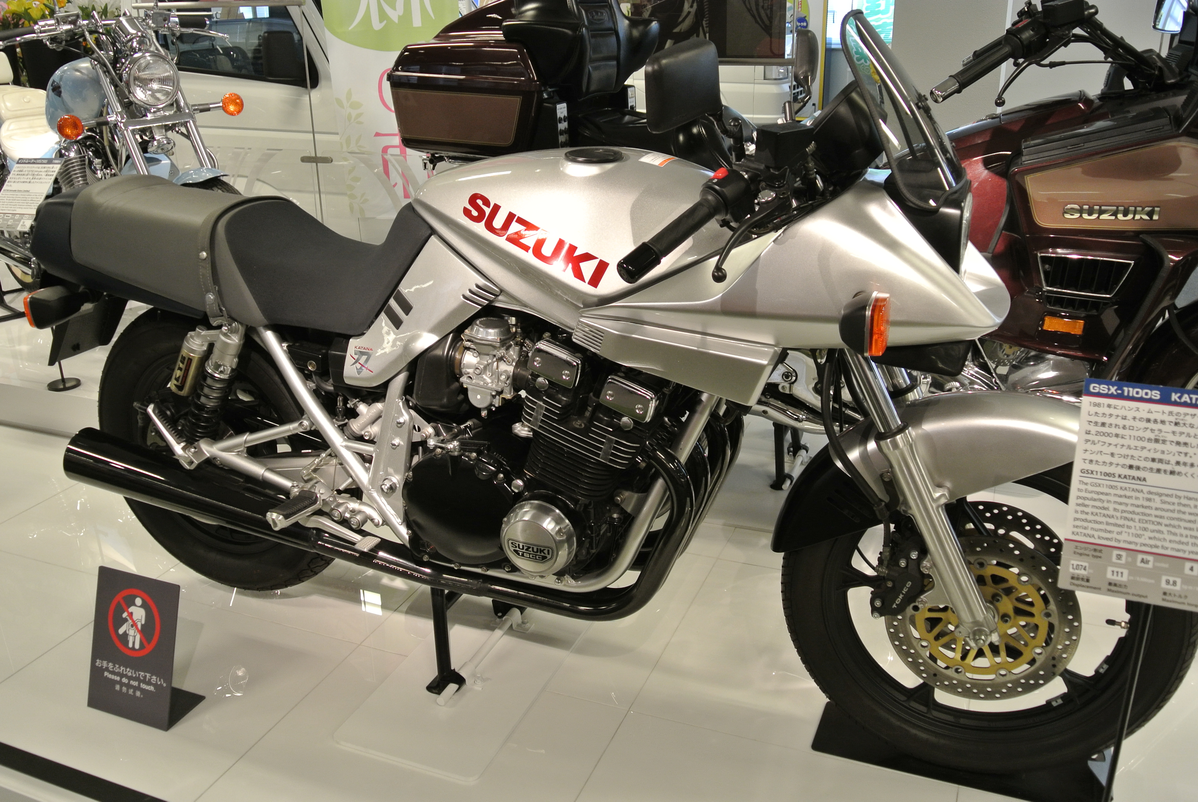 1981 Suzuki GSX-1100S Katana in the Suzuki History Museum.